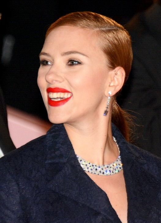 Scarlett Johansson in Paris at the César Awards ceremony